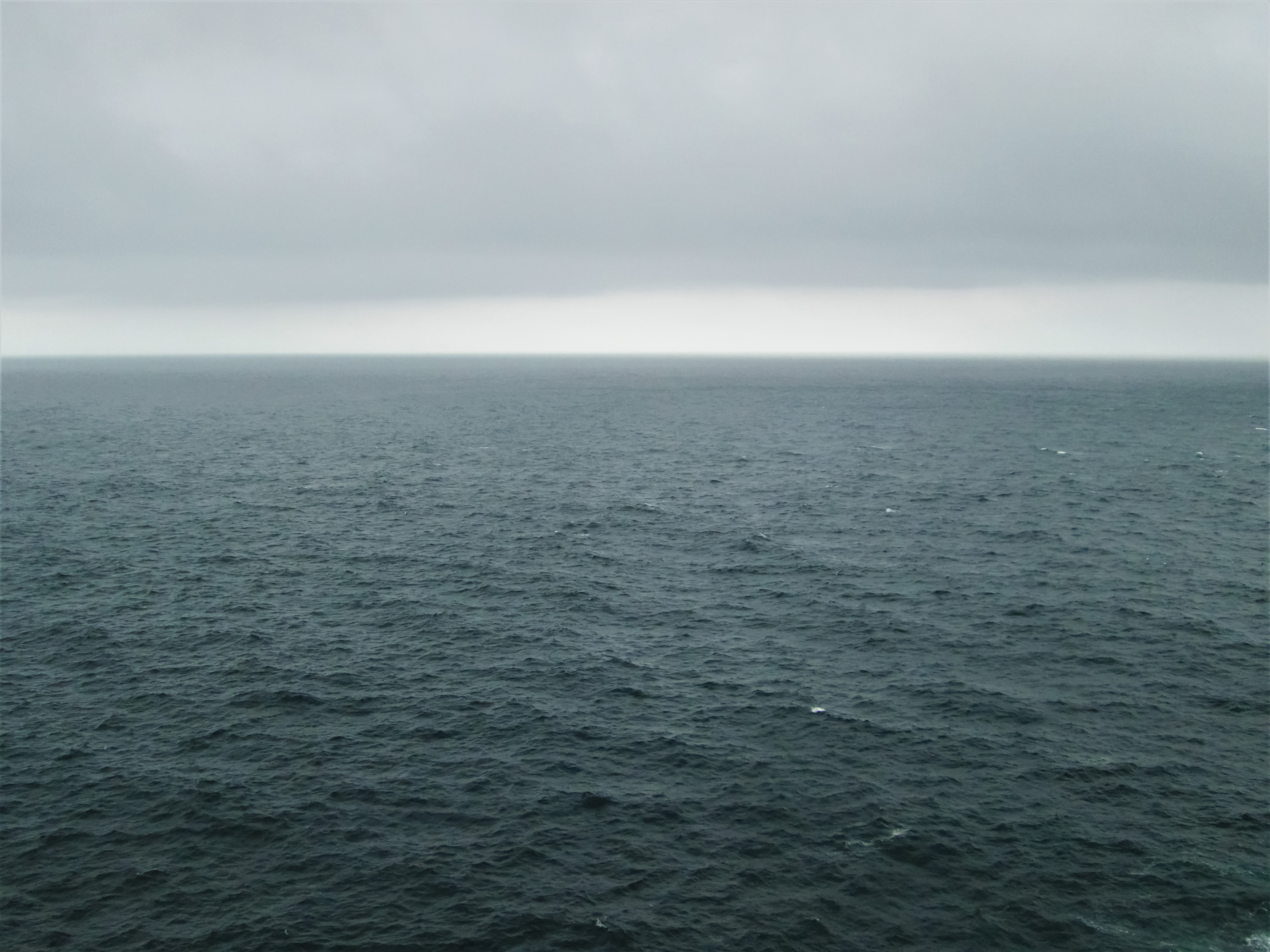 The grey, choppy waters of the Atlantic Ocean - June 2016